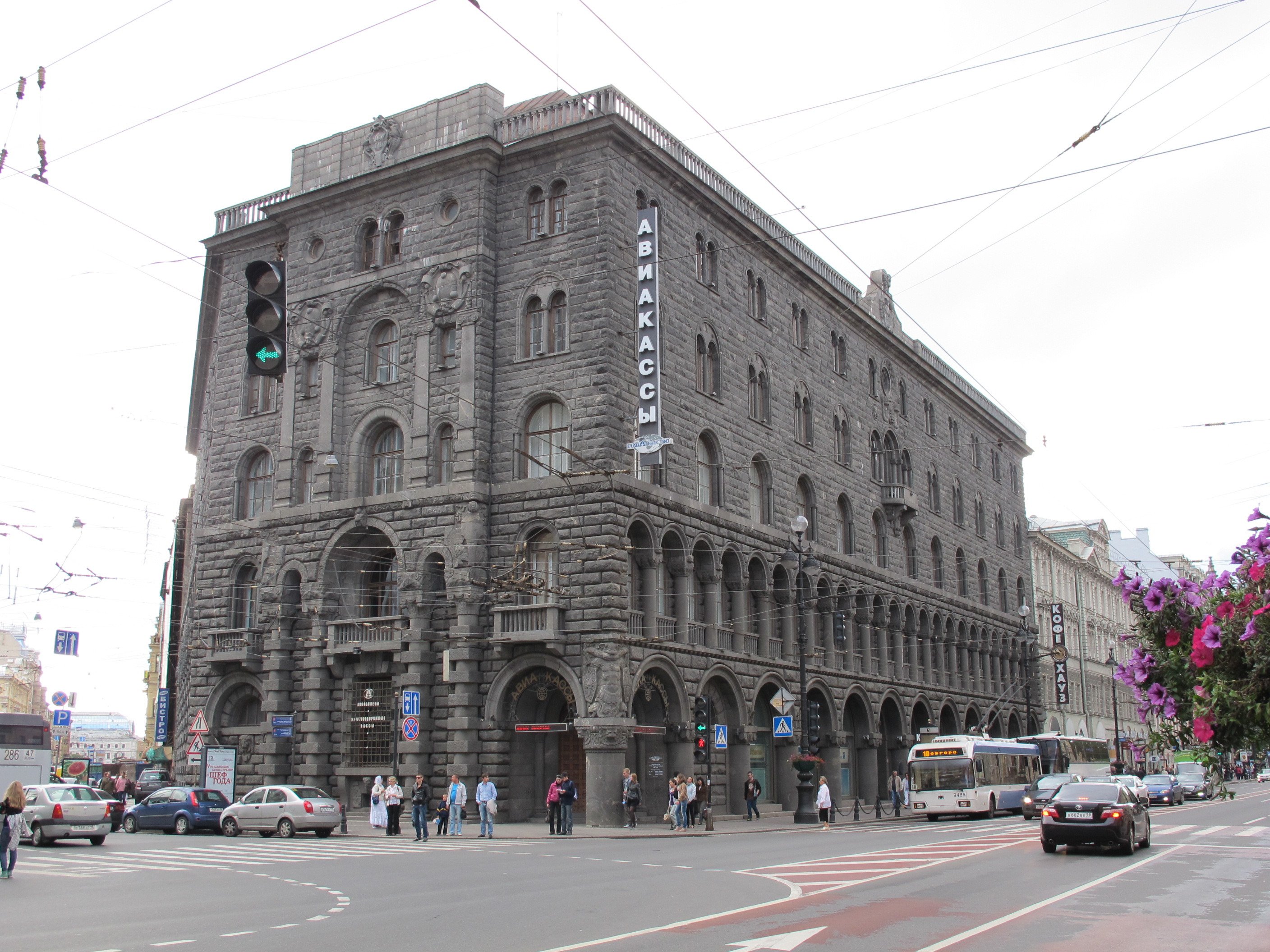 Aeroflot building